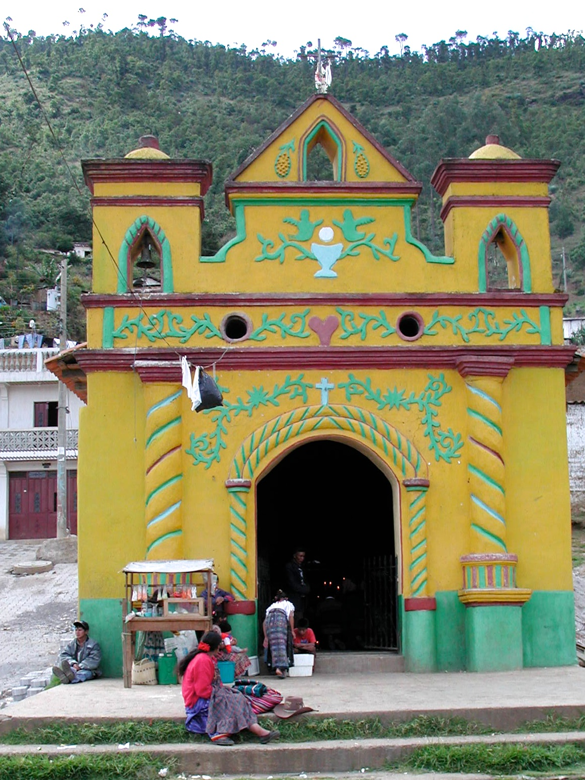 San Andrés Xecul Calvary - Departement of Totonicapán - Guatemala